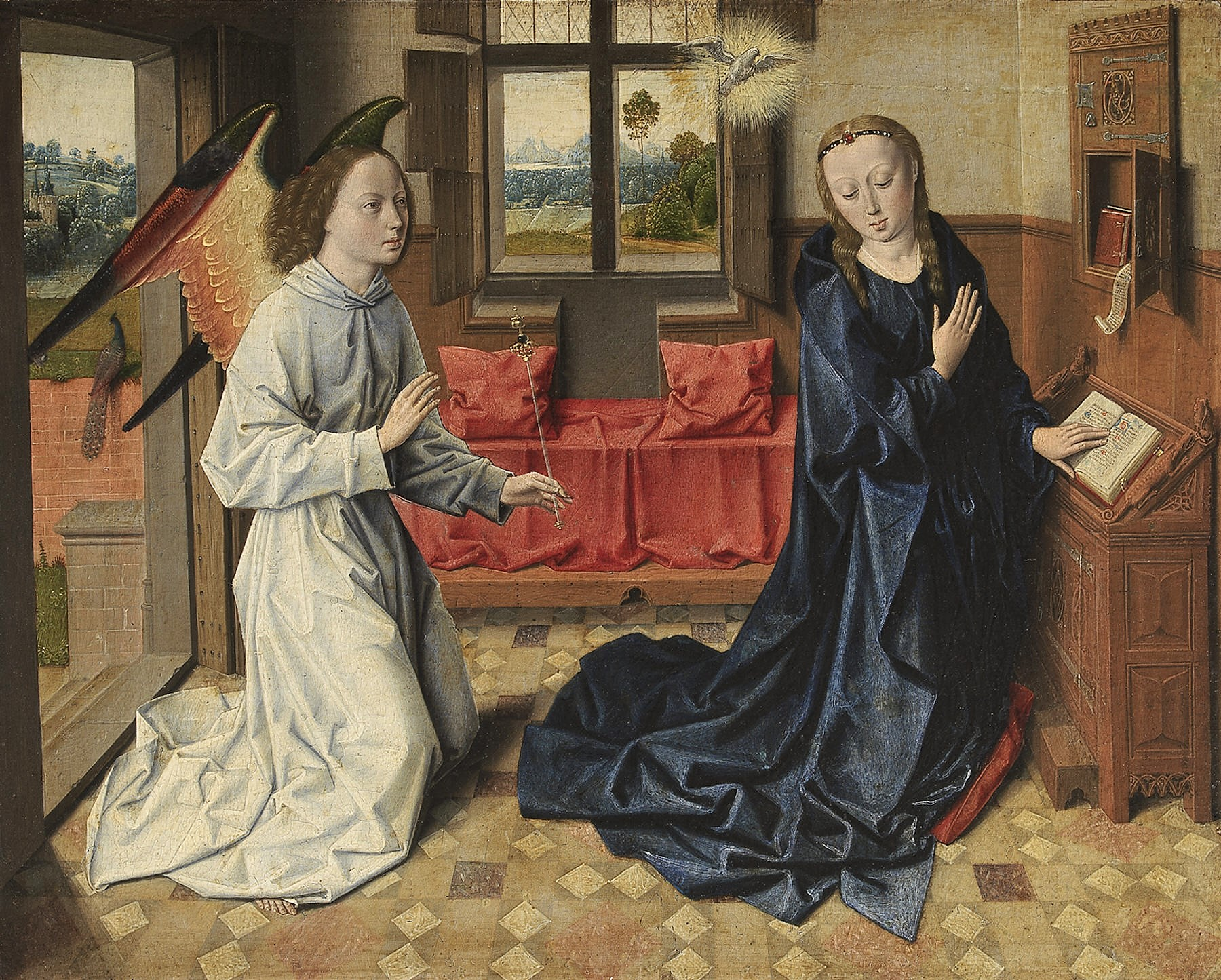 The Annunciation (c. 1480-1490) by an anonymous painter of the circle of Dirk Bouts. It is located at Calouste Gulbenkian Museum, Lisbon, Portugal.